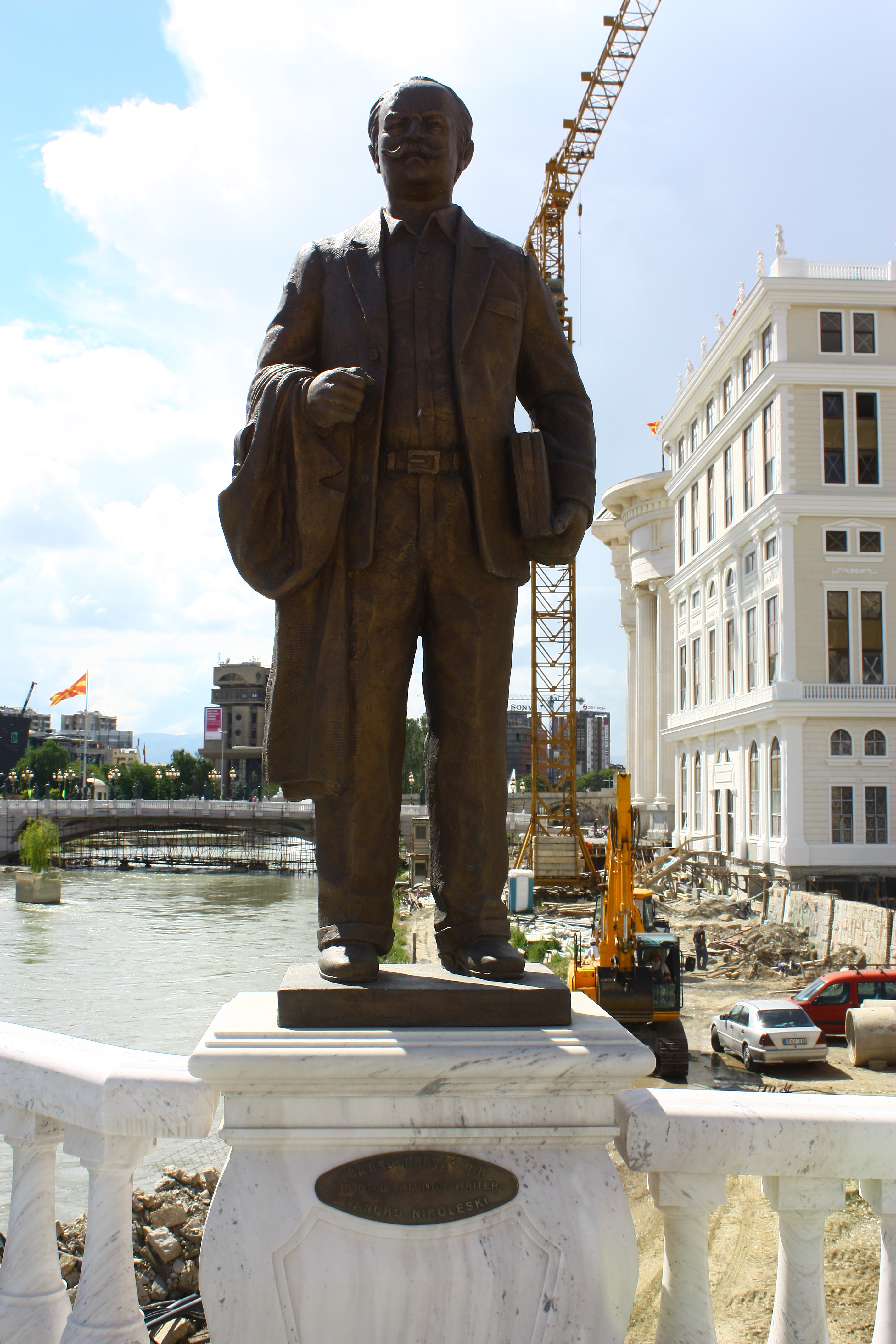 Sculpture od the Bridge of Arts in Skopje, Macedonia This image is uploaded as part of the picture contest Wiki Loves Cultural Heritage in Macedonia 2013. English | македонски | +/−